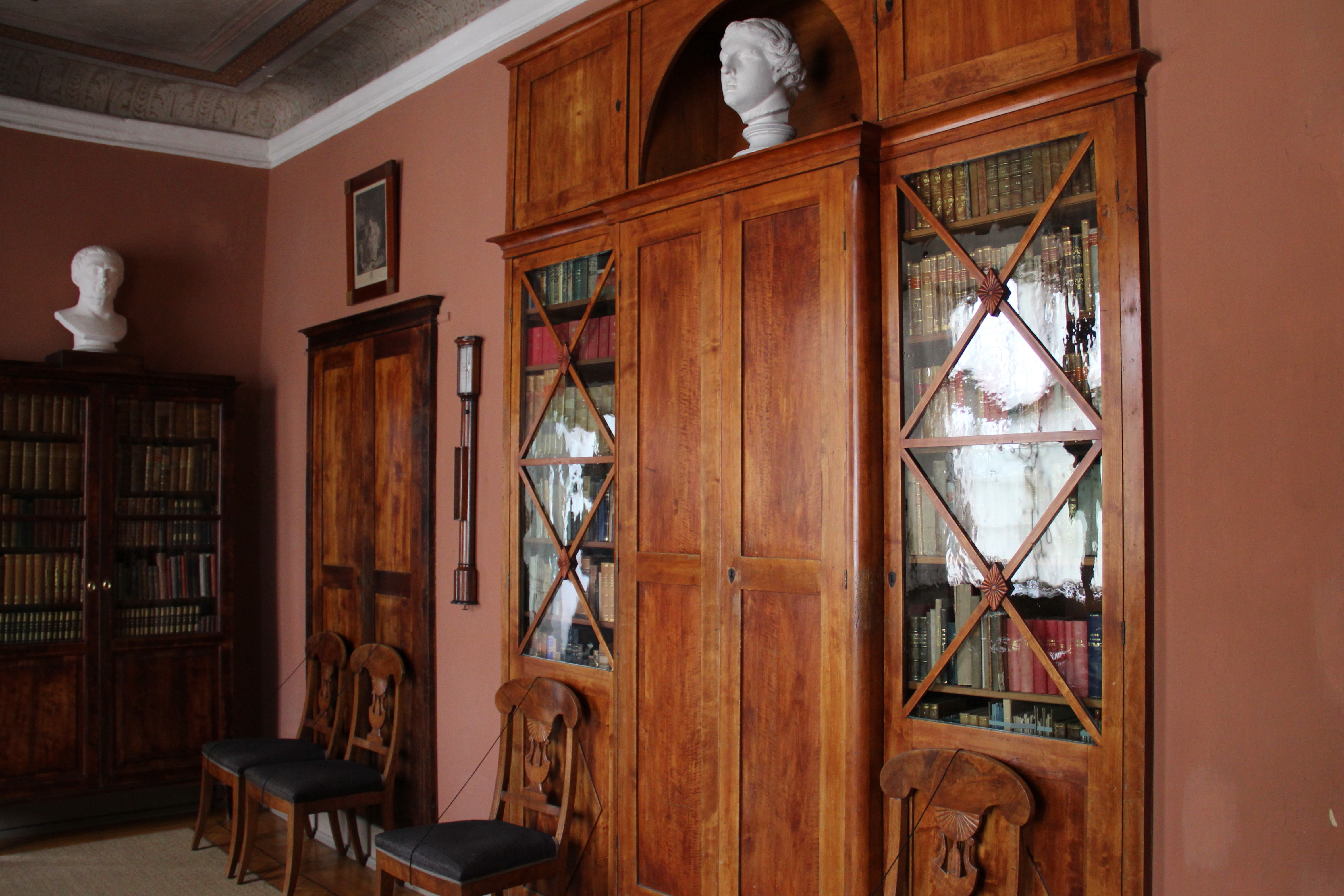 Louhisaari manor, Askainen, Masku, Finland. - Count's library, furnished with early 1800s furniture.